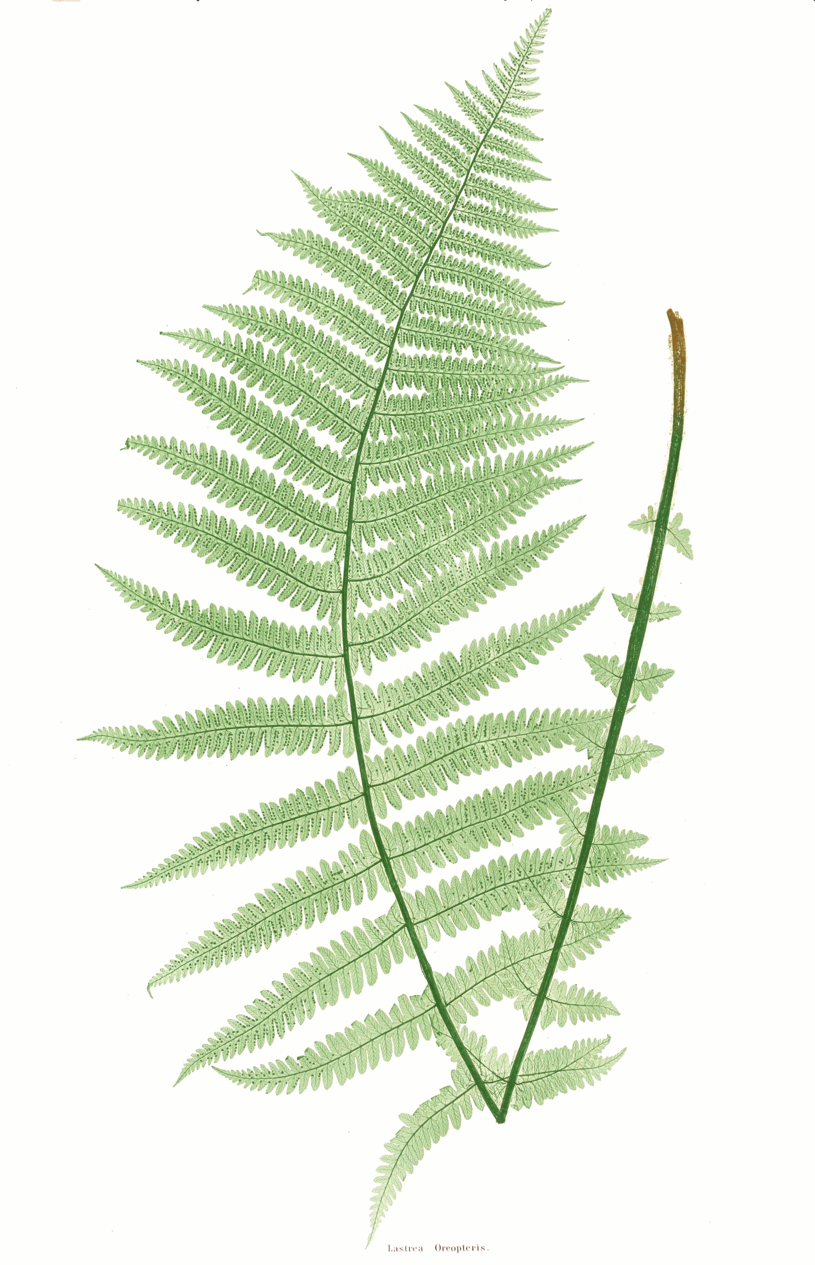 Plate from book